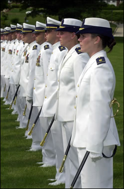 United States Coast Guard Academy - graduation ceremony